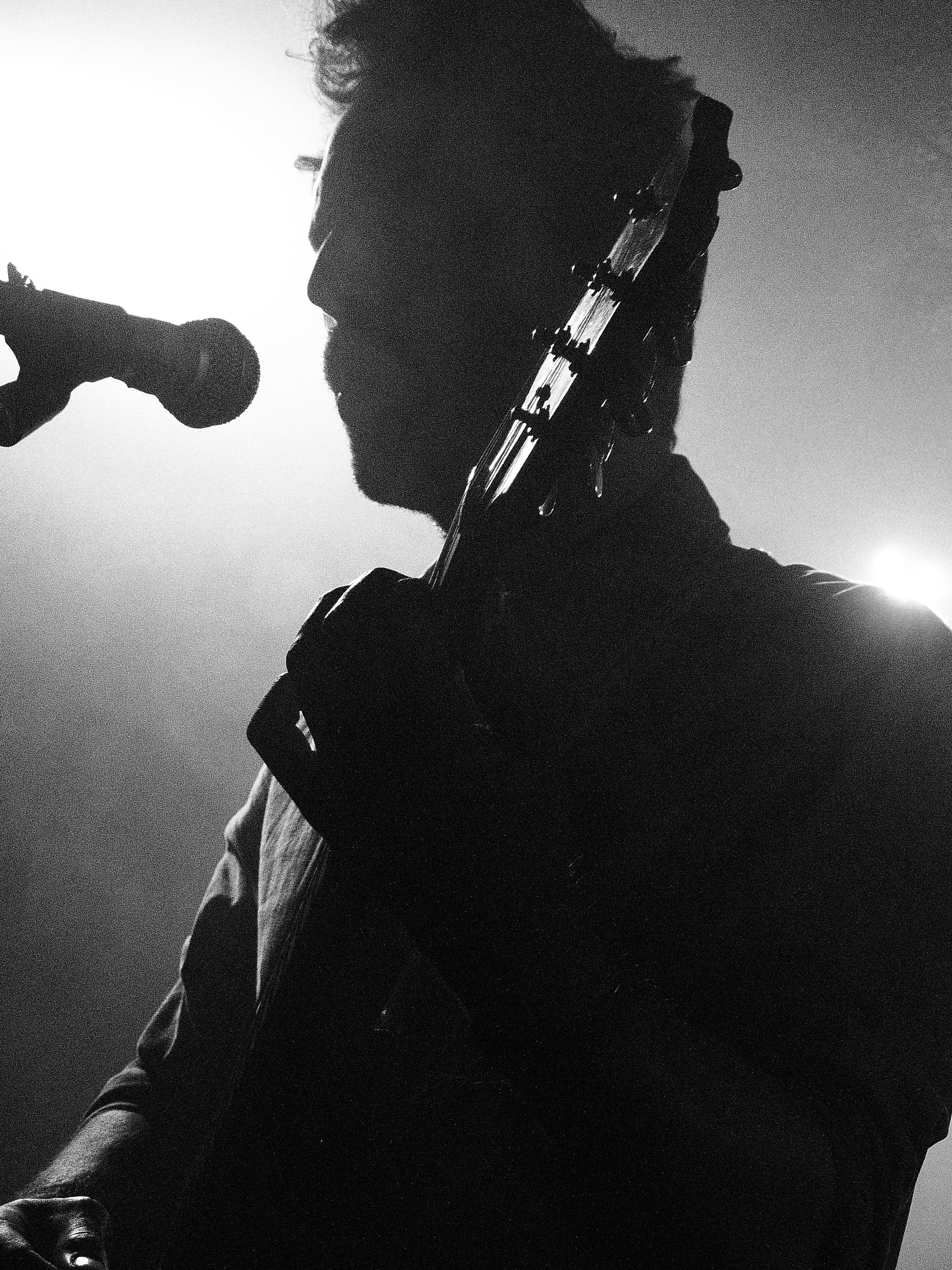 Joel Stein of Howling Bells performs at King Tut's in Glasgow, Scotland on 5 June 2014.